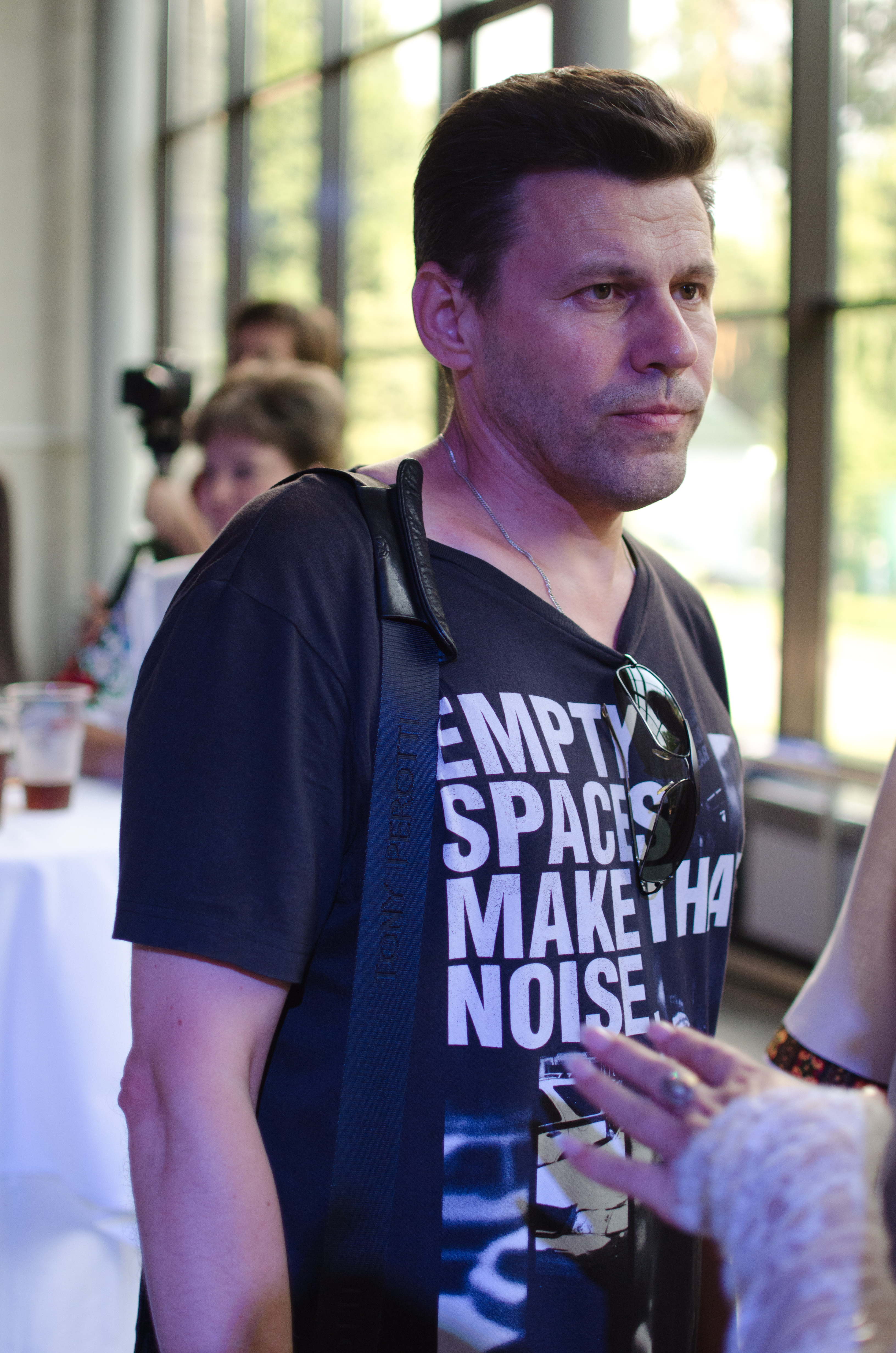 Koronatsiya Slova 2013 literature awards ceremony, Kiev, Ukraine